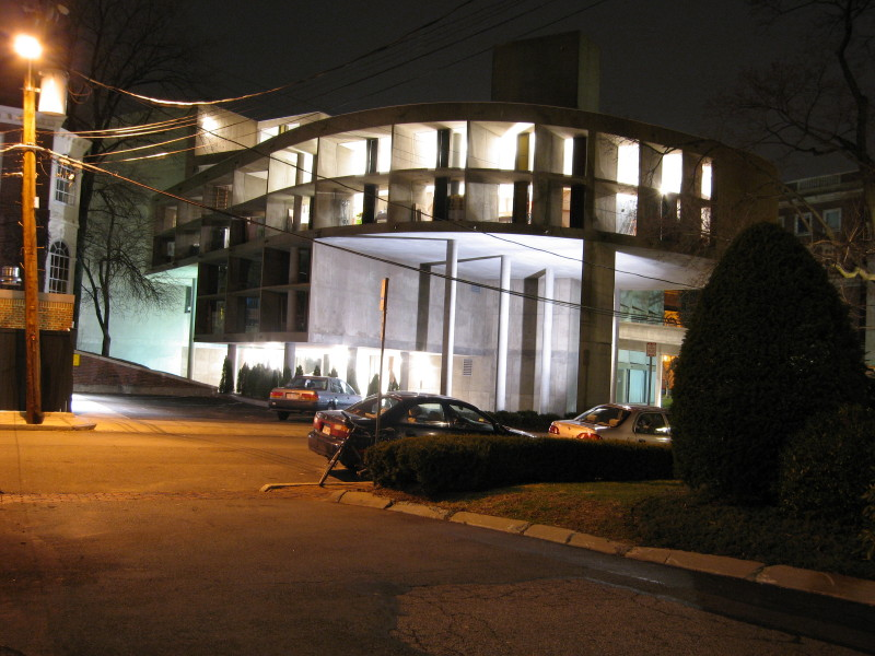 Carpenter Center for the Visual Arts, Cambridge, Massachusetts Willem Meintjes, Self taken photo